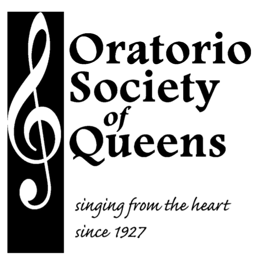 Oratorio Society of Queens logo